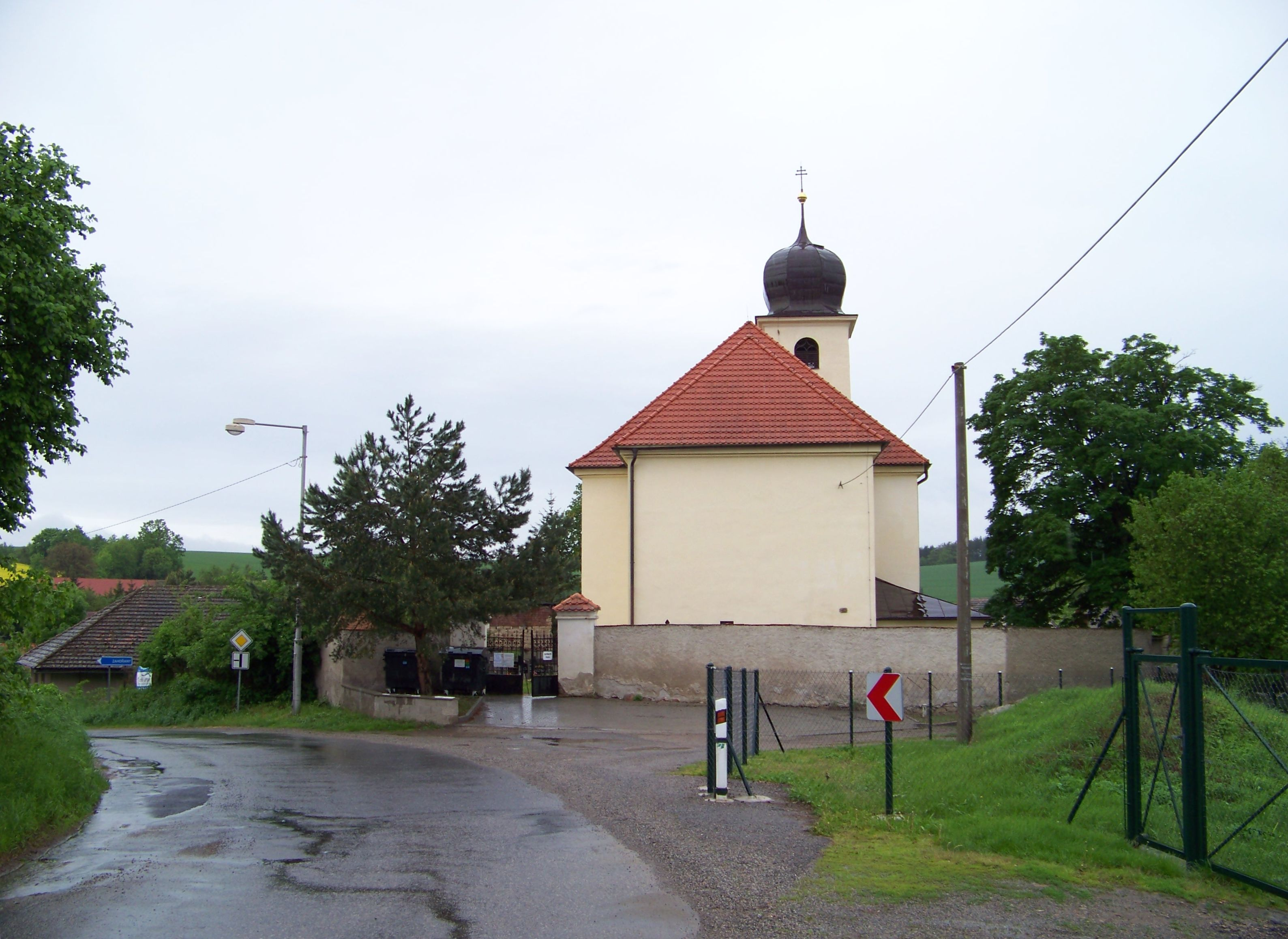 Bystřice-Nesvačily, Benešov District, Central Bohemian Region, the Czech Republic. Holy Cross church.